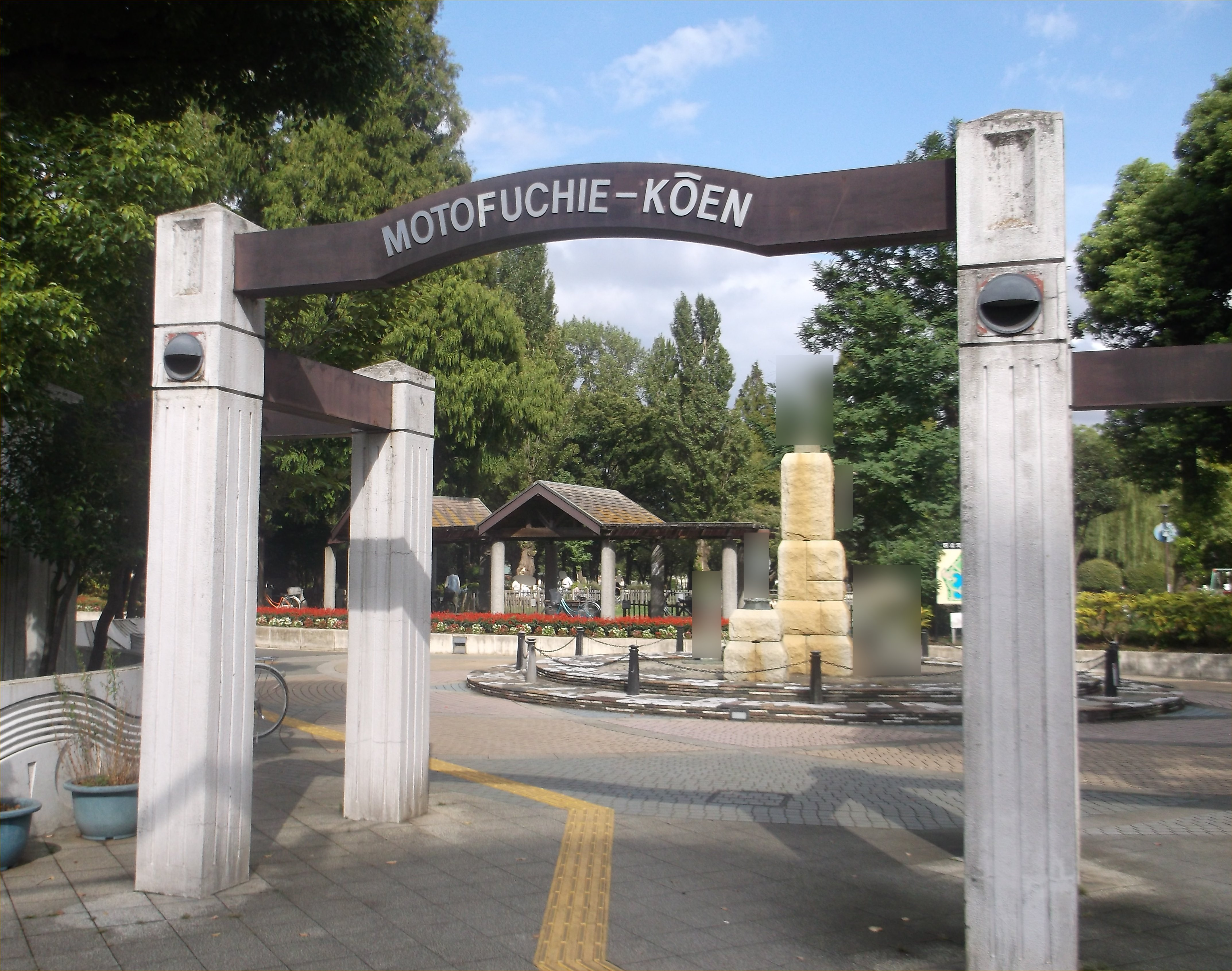 a Photo of the entrance of Motofuchie Park,Hokima,Adachi-ku,Tokyo,Japan.